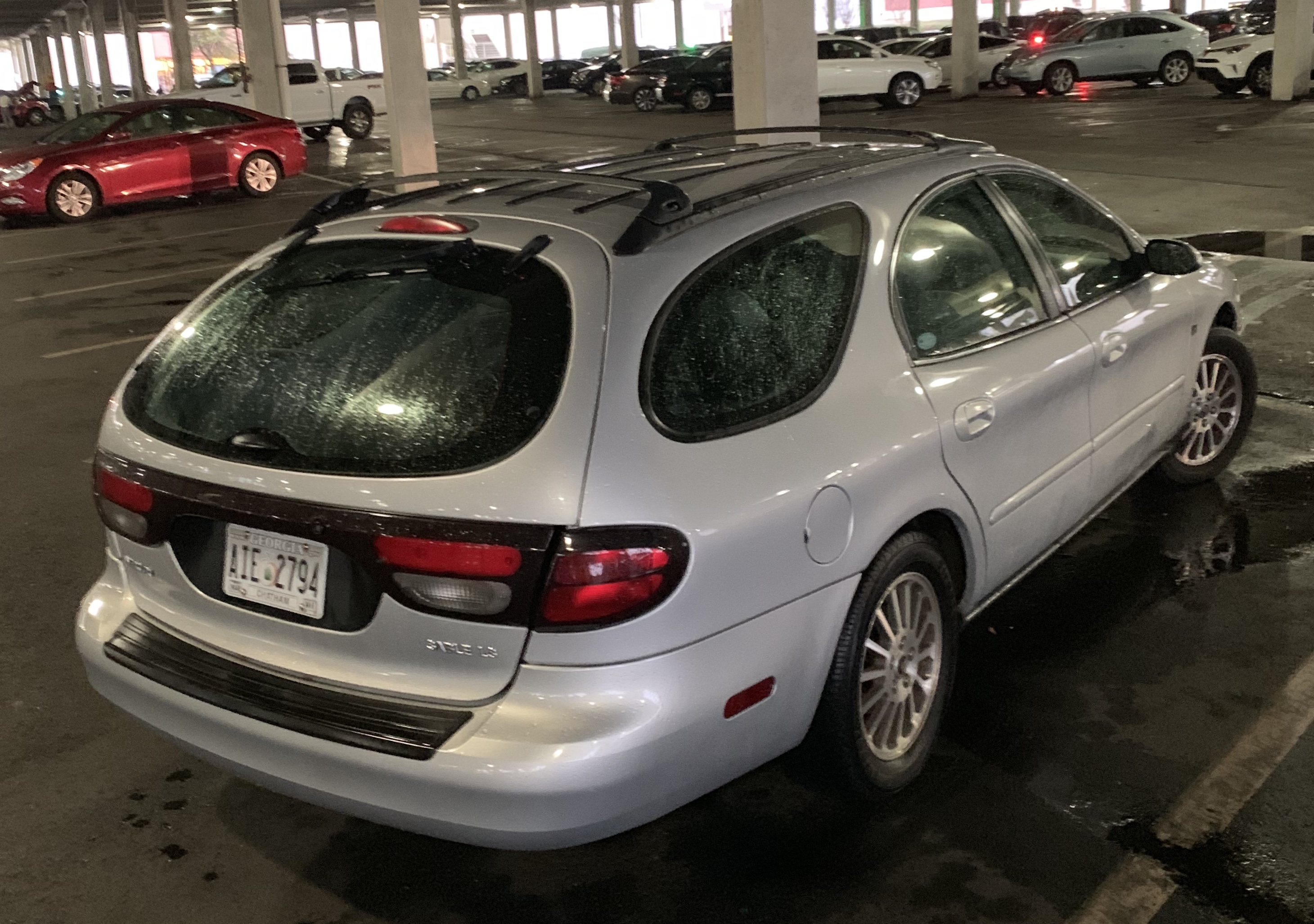 2004 Mercury Sable photographed in Savannah, Georgia, USA